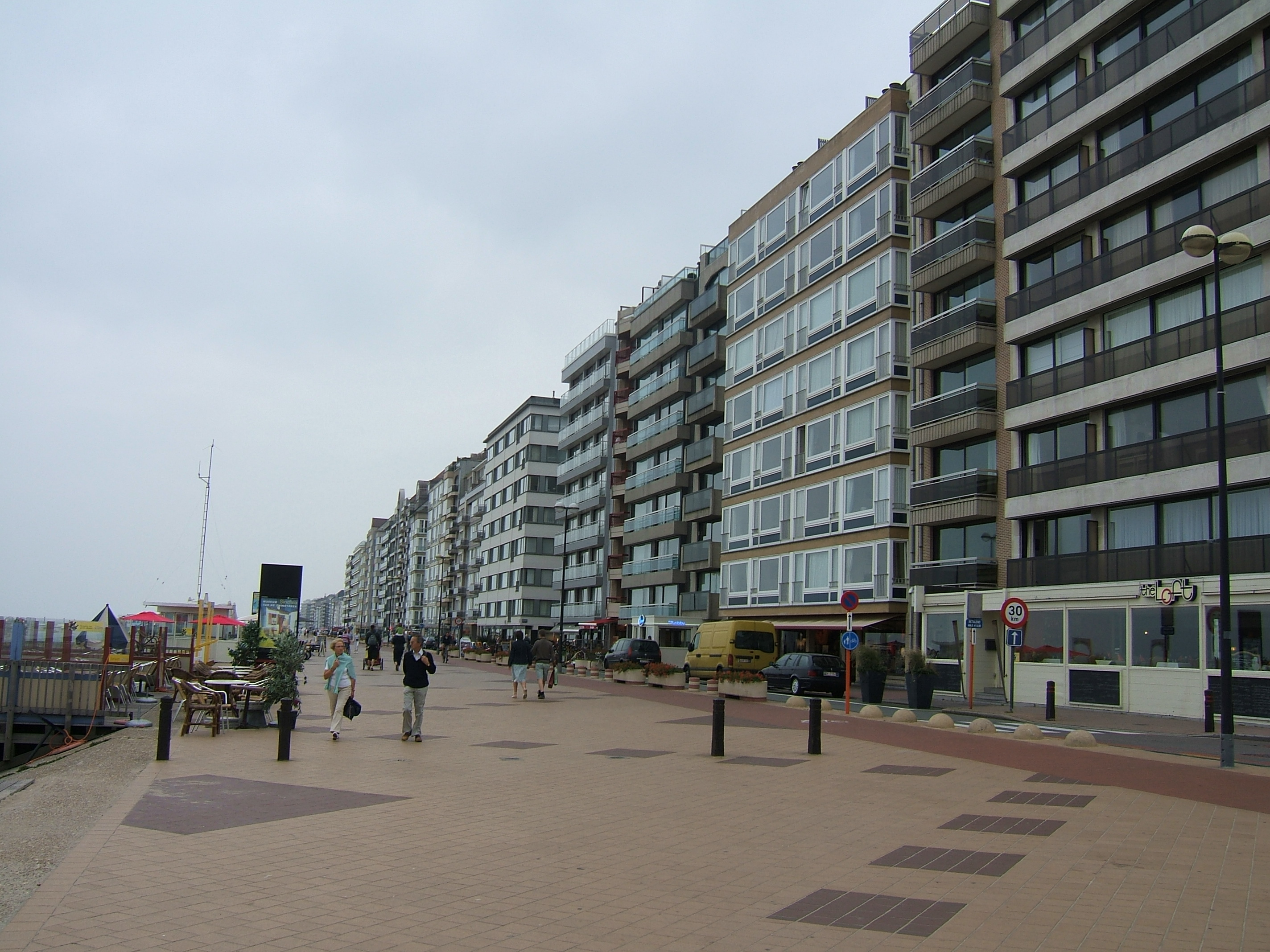 Beachpromenade in Knokke-Heist